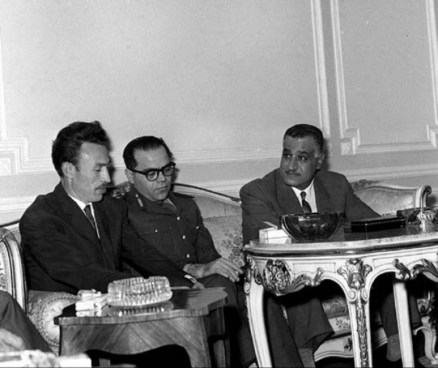 A Syrian-Egyptian-Algerian Summit in Cairo in April 1963 / From left to right: President Houari Boumédienne of Algeria, President of the Revolutionary Command Council (RCC) in Syria General Louai al-Atasi, and President Gamal Abdul Nasser of Egypt.